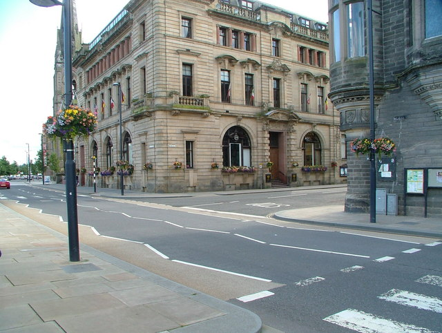 Junction of Tay Street & High Street